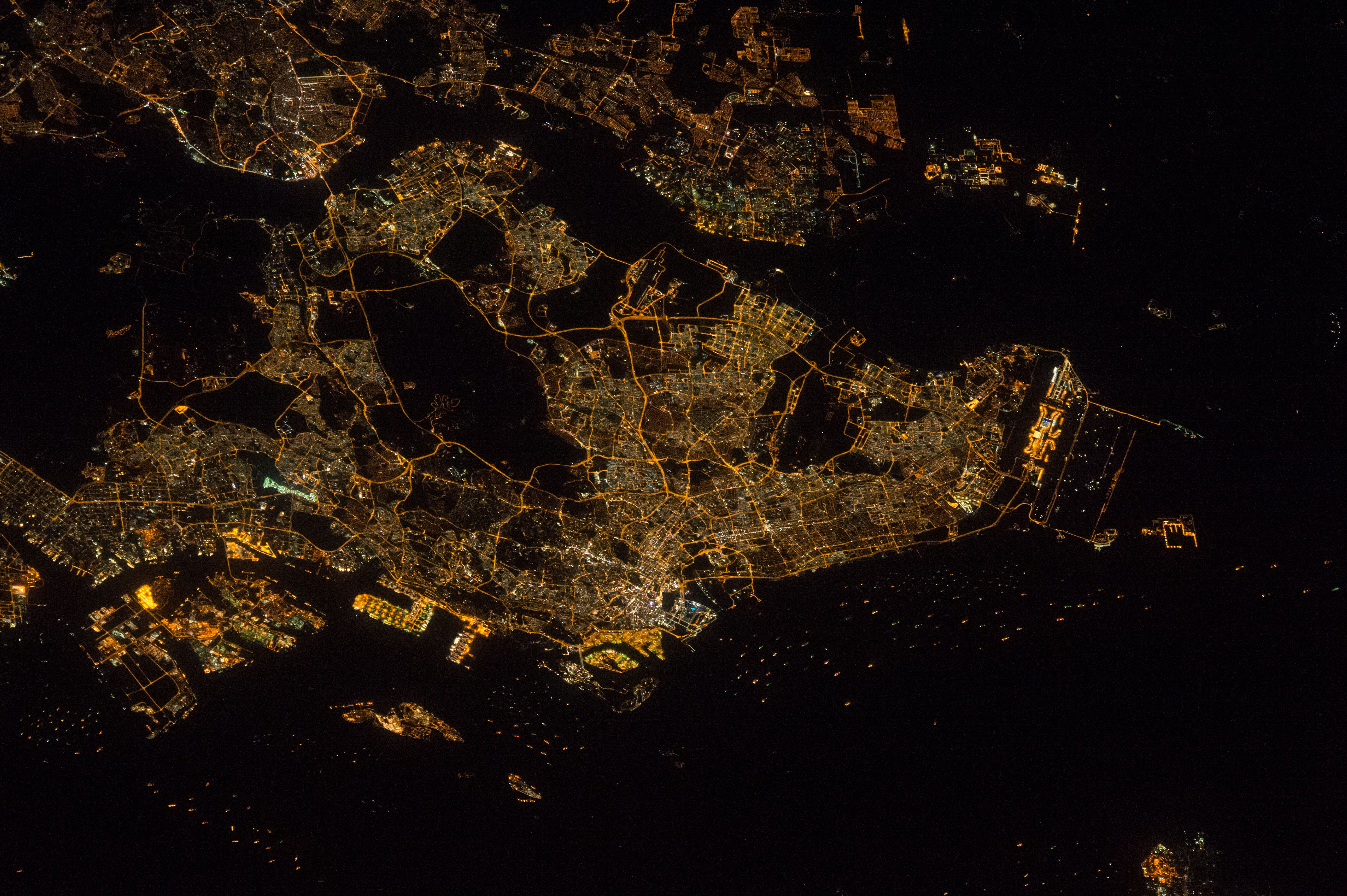 NASA astronaut Tim Kopra tweeted this image with the comment: "#GoodNight #Singapore from @Space_Station. @TwitterSG #CitiesfromSpace"